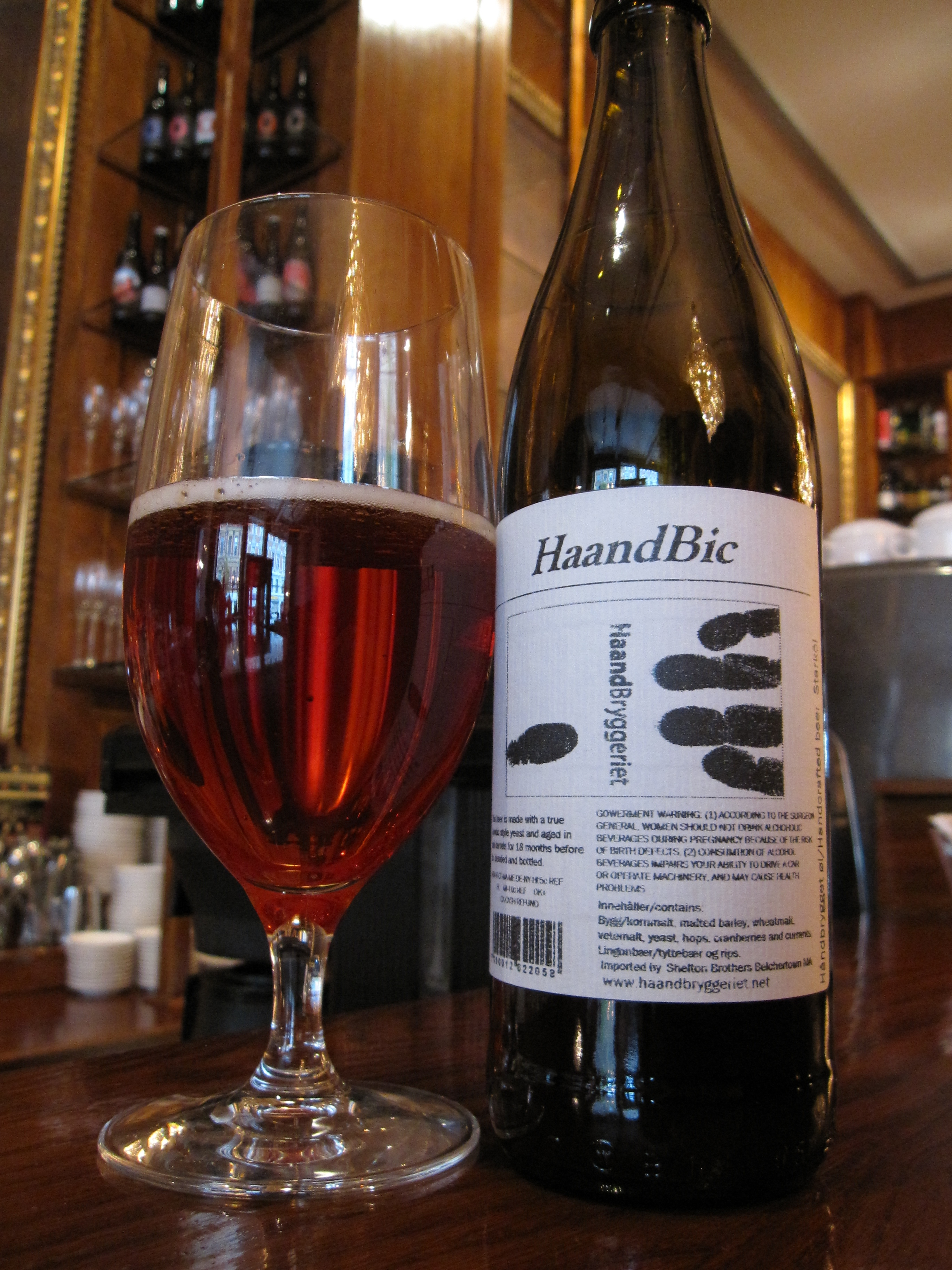 A bottle of HaandBic from HaandBryggeriet in Drammen, Norway, at Olympen in Oslo. HaandBic is a 7.5% abv sour ale, brewed with a lambic type of yeast, with lingonberries and red currant and aged for 18 months on oak barrels.